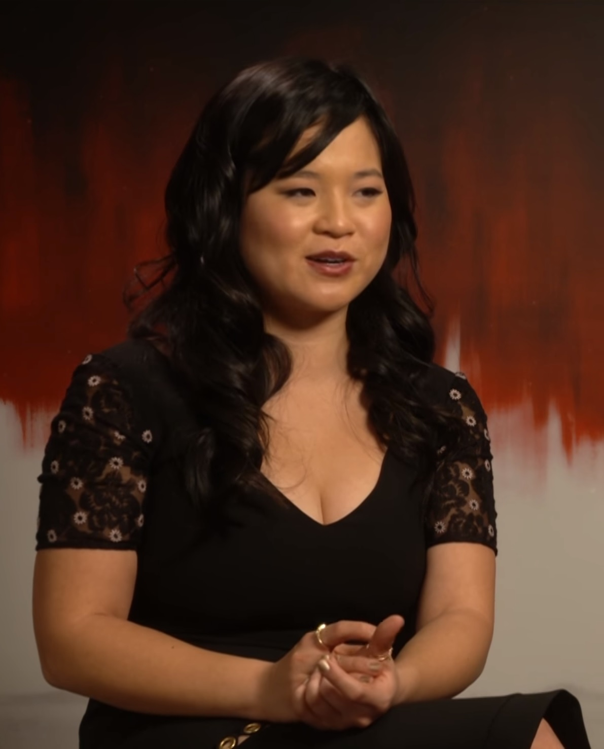 American actress Kelly Marie Tran discusses favourite deleted scenes from "The Last Jedi" with MTV International in 2017.